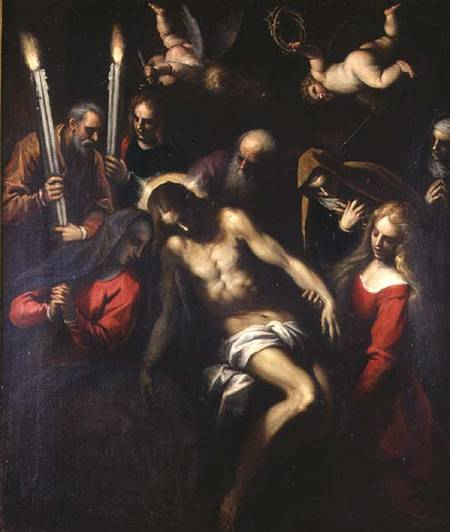 Pieta, modelletto for the altarpiece in the cathedral at Reggio Emilia